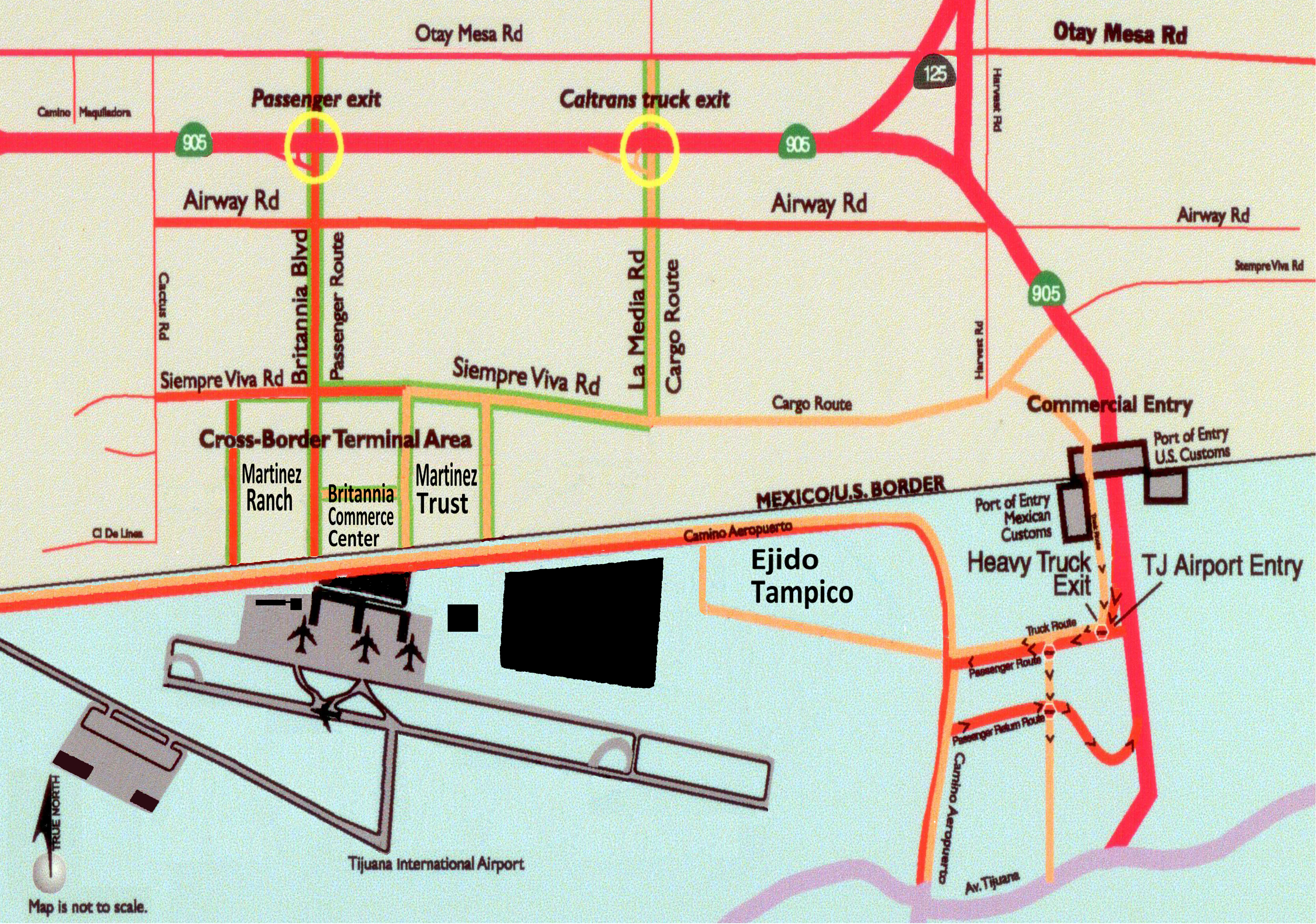 Tijuana airport cross-border passenger terminal land option 2005-2006